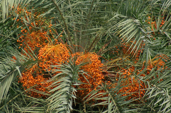 Wild Date Palm Phoenix sylvestris in Kolkata, West Bengal, India.